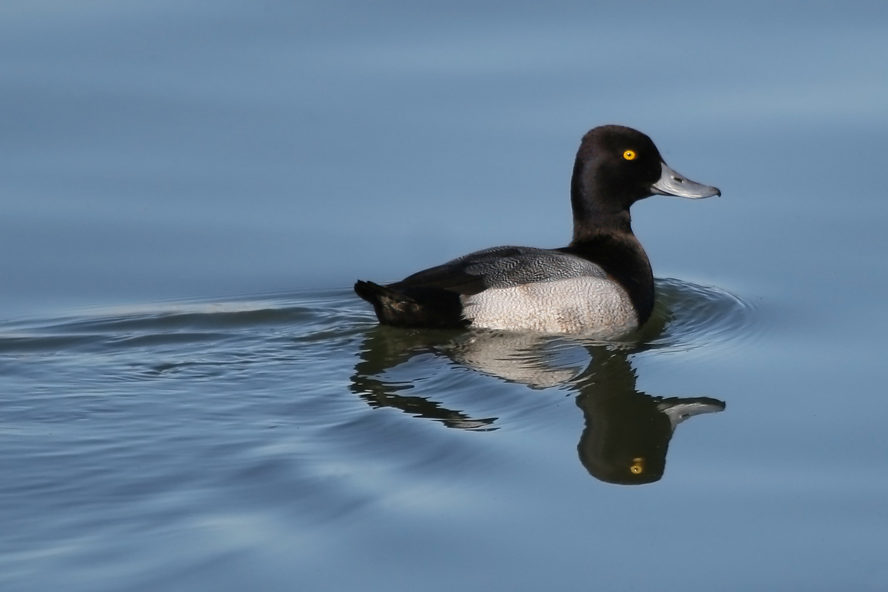 This Lesser Scaup was found at the Belle Haven Marina in Alexandria, Virginia, USA